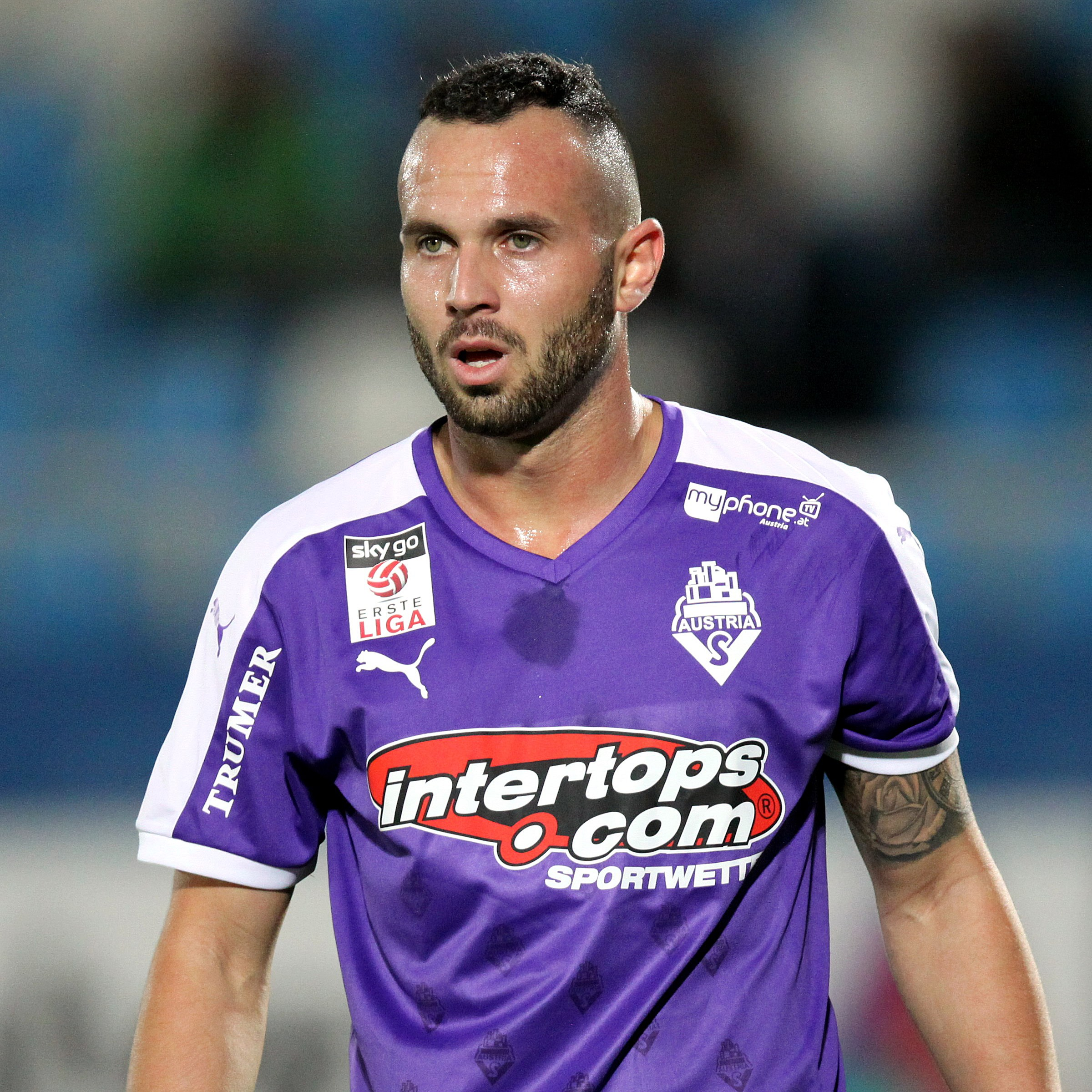 Match of the Erste Liga – SC Wiener Neustadt (blue/white shirts) vs. SV Austria Salzburg (purple shirts and black/white shirts) 2–0 (1–0) on 2015-10-02 in the Stadion in Wiener Neustadt – The photo shows Lukas Katnik.